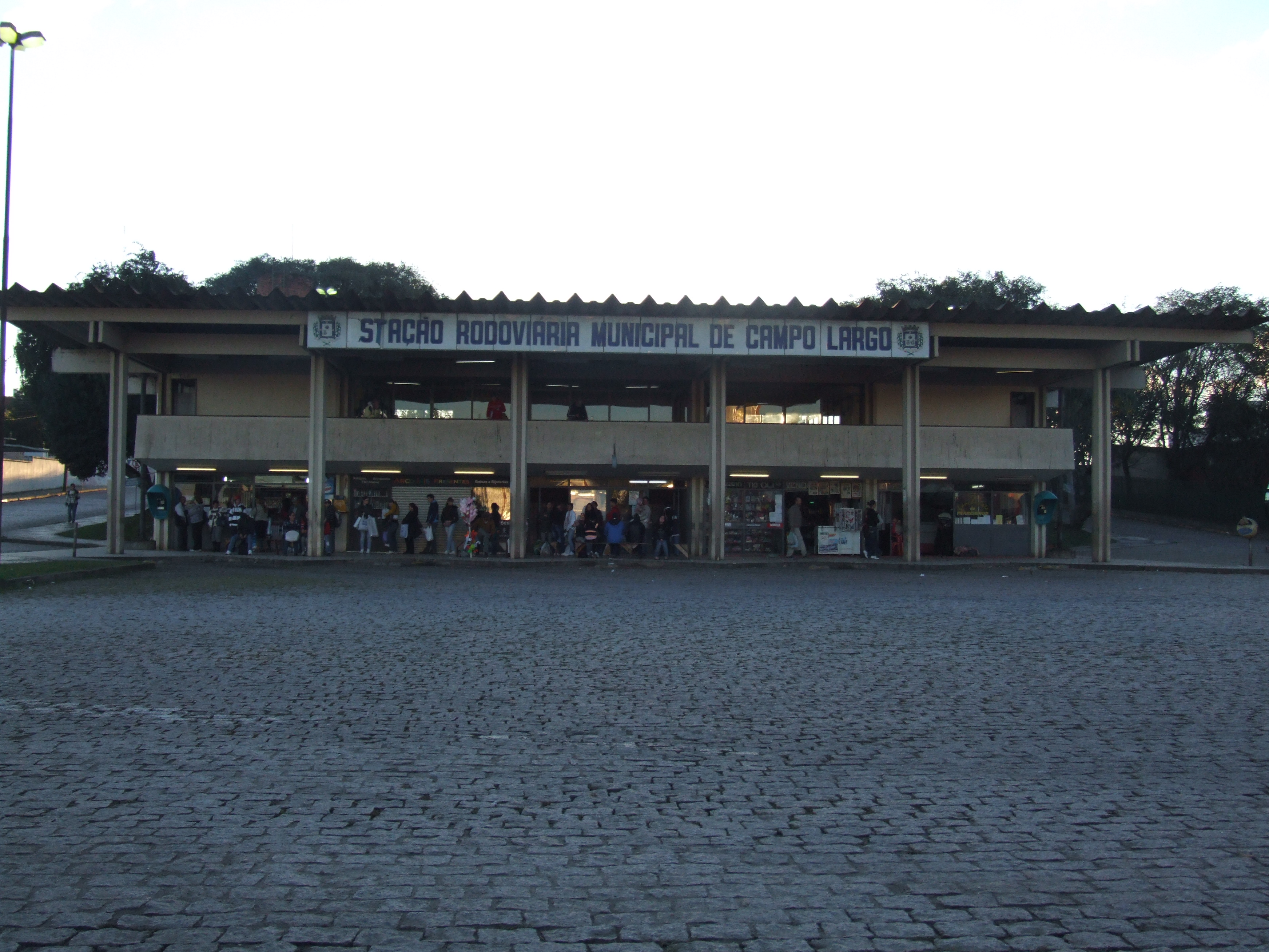 Road Station of Campo Largo, Paraná, Brazil.